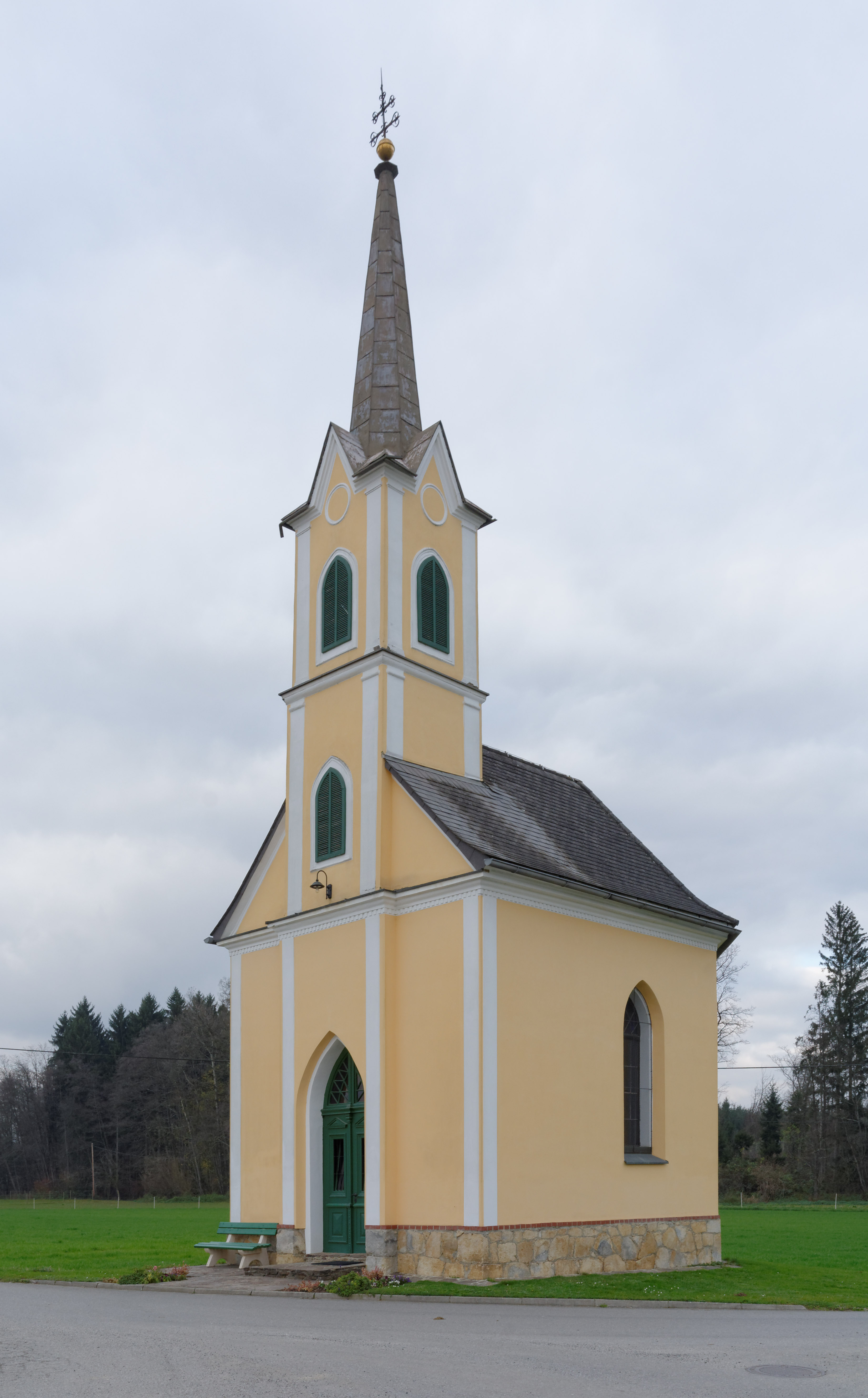 Chapel in Großfeiting, Municipality Allerheiligen bei Wildon, Styria, Austria